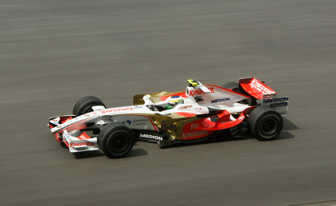 Giancarlo Fisichella, 2008 Malaysian Grand Prix